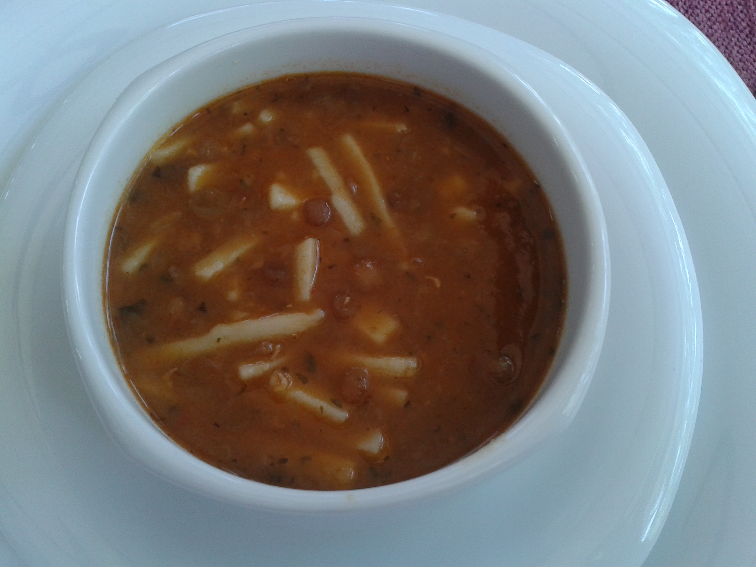 Bacaklı aş (details). Please see File:Bacakli.jpg for more info.